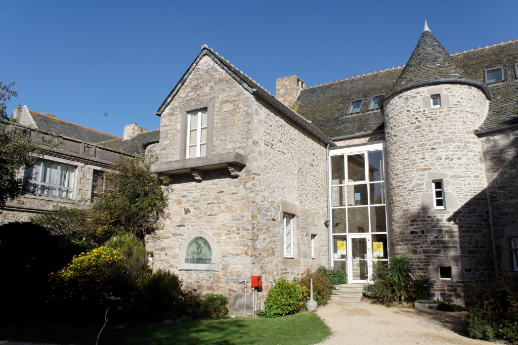 Garden of the Station biologique de Roscoff, Finistère, France